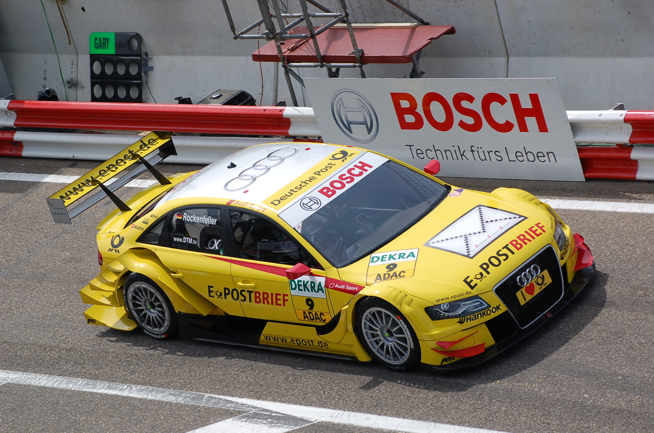 Mike Rockenfeller's DTM-Car 2011